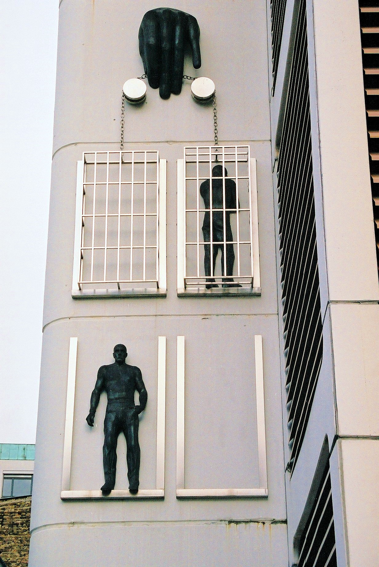 Facade on a building of prison "Moabit" in Berlin, Germany.